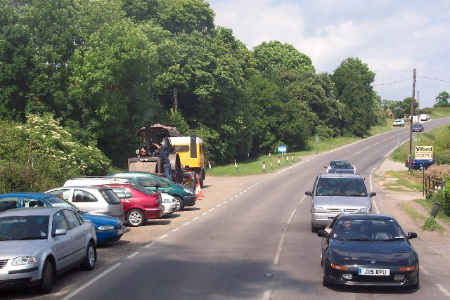 The A28 near Rolvenden, Kent, England.